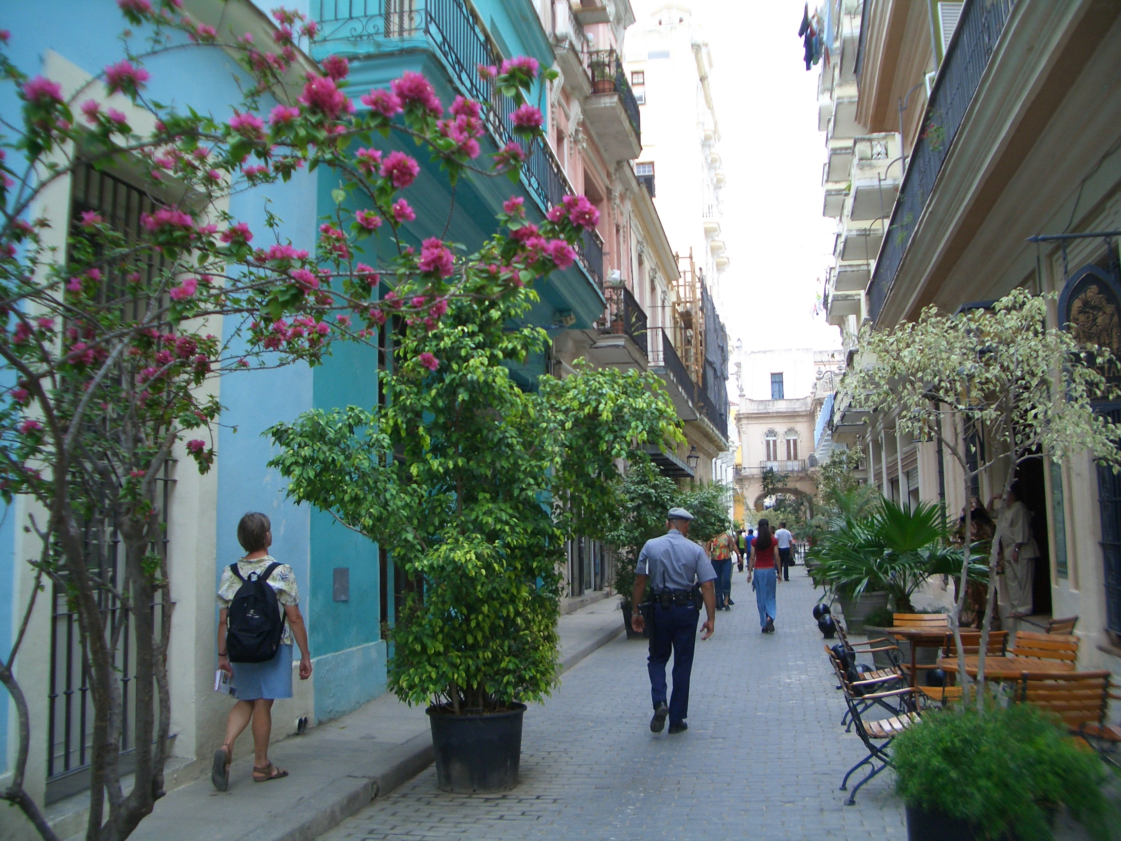 Small lane in Havana Cuba